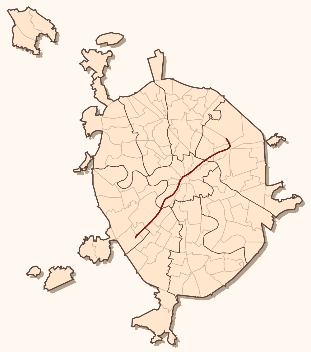 Map of Sokolnicheskaya line of Moscow Metro on Moscow map